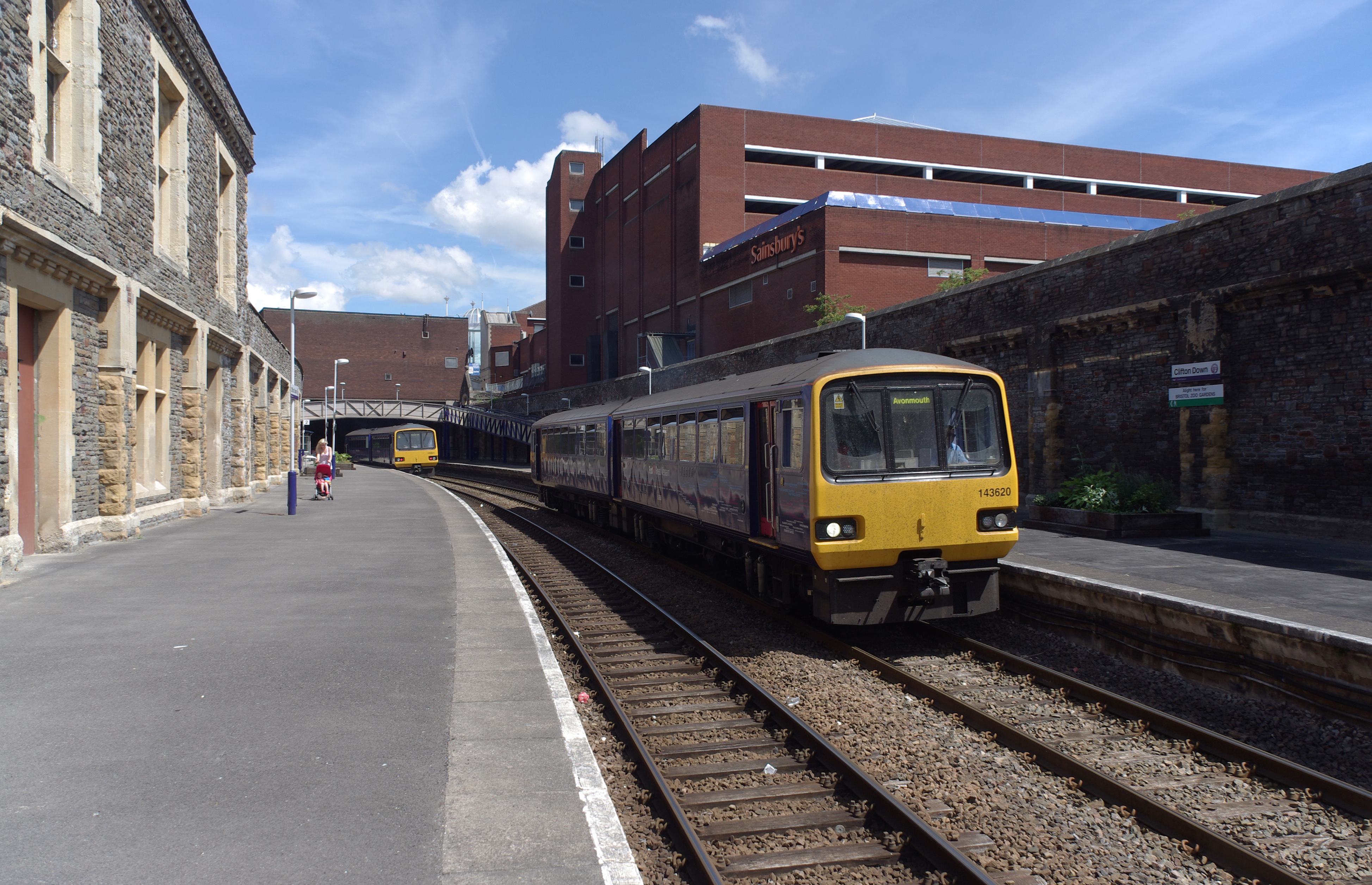 First Great Western 143621 (departing to Bristol Temple Meads) and 143620 (about to leave for Avonmouth) at Clifton Down railway station on the Severn Beach Line in Bristol.